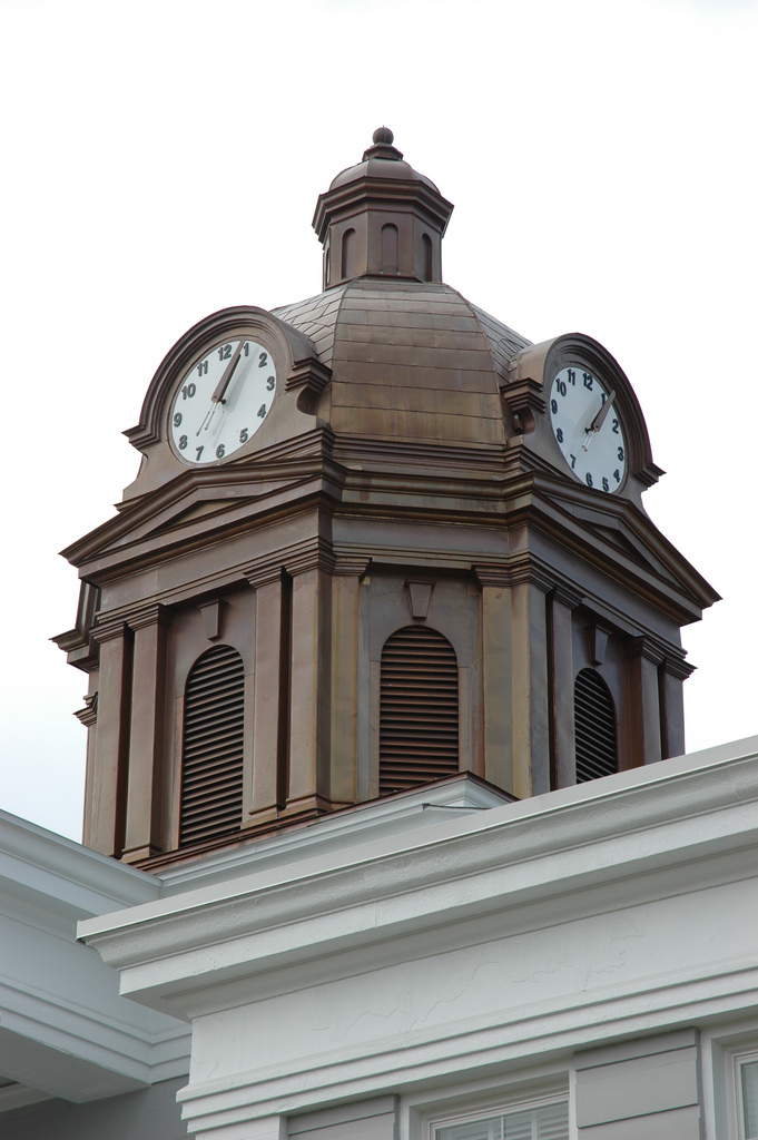 The Appling County, GA Courthouse dome